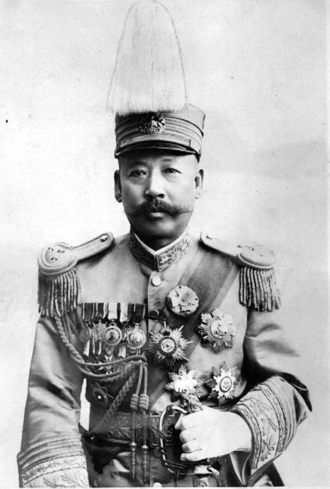 Cao Kun, President of RoC between 1923-1924